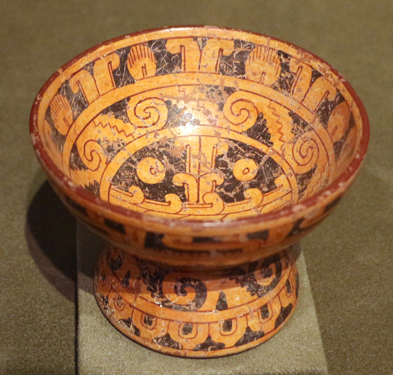 Pre-Columbian art in the Cleveland Museum of Art